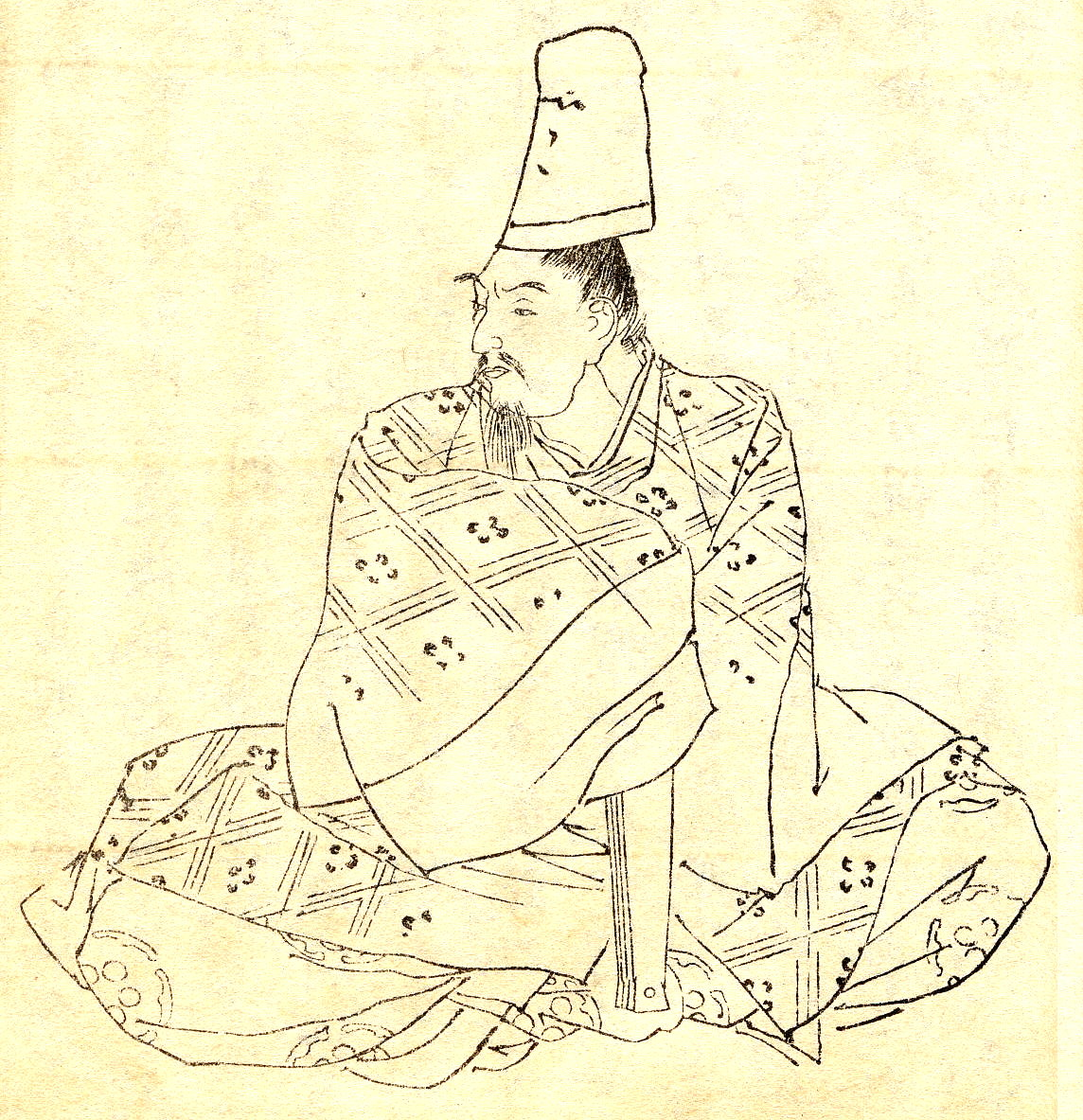 Fujiwara no Tametaka(藤原為隆)was a japanese court noble in Heian period.